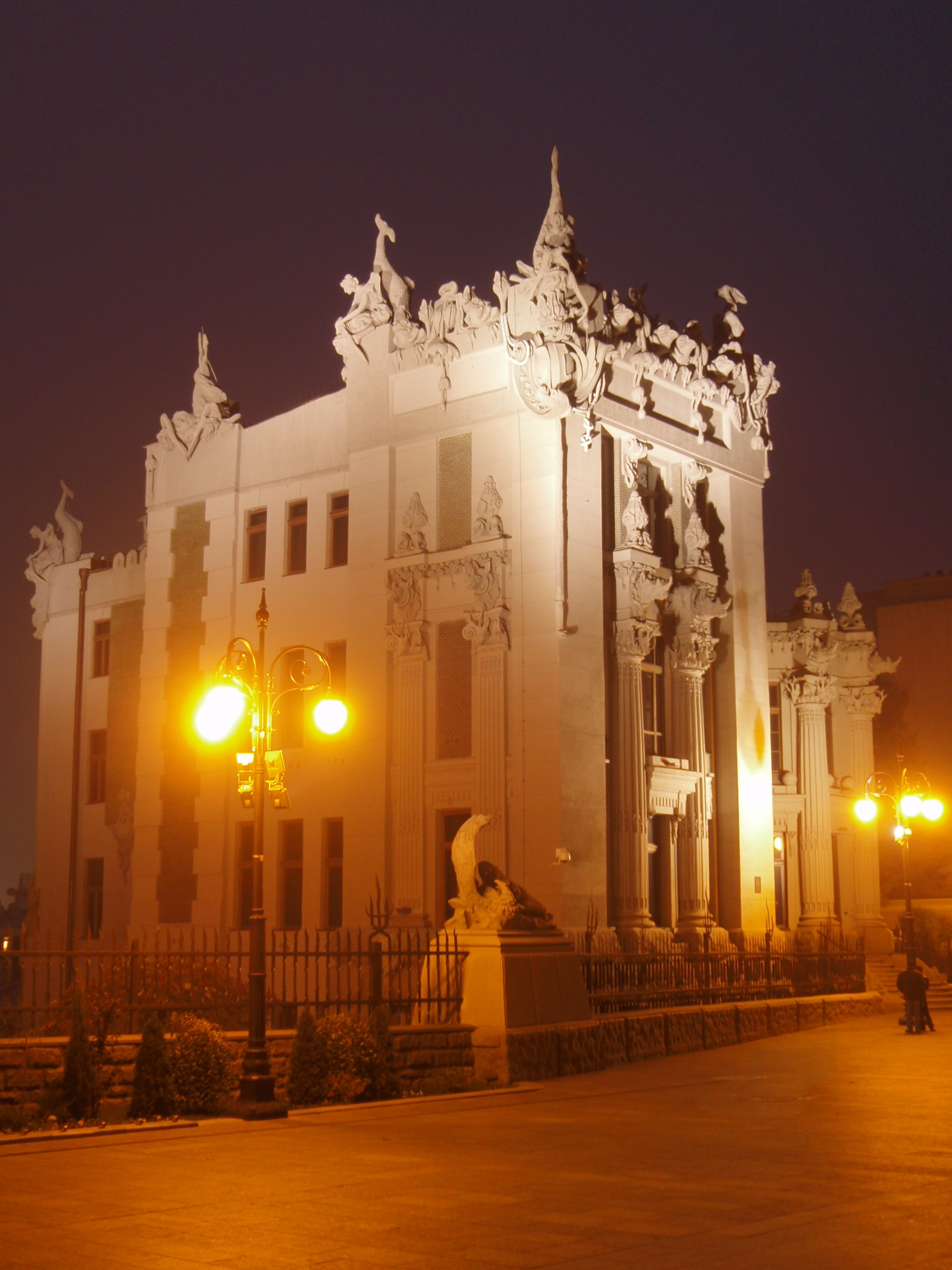 House with the Chimeras, Kiev